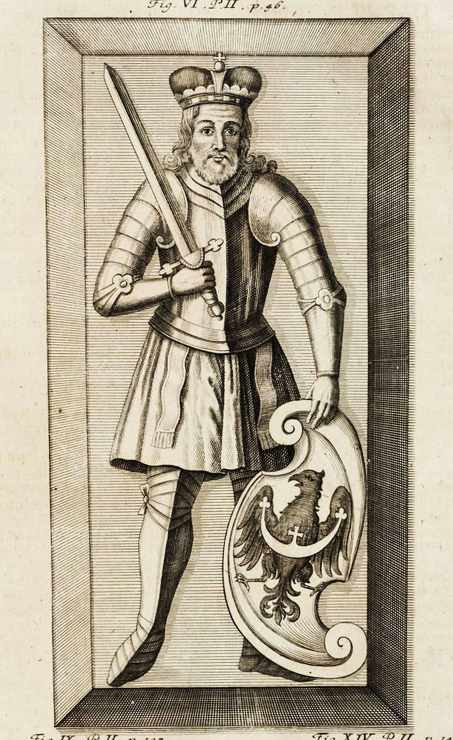 Henry the Bearded (ca. 1168-1238), Duke of Poland